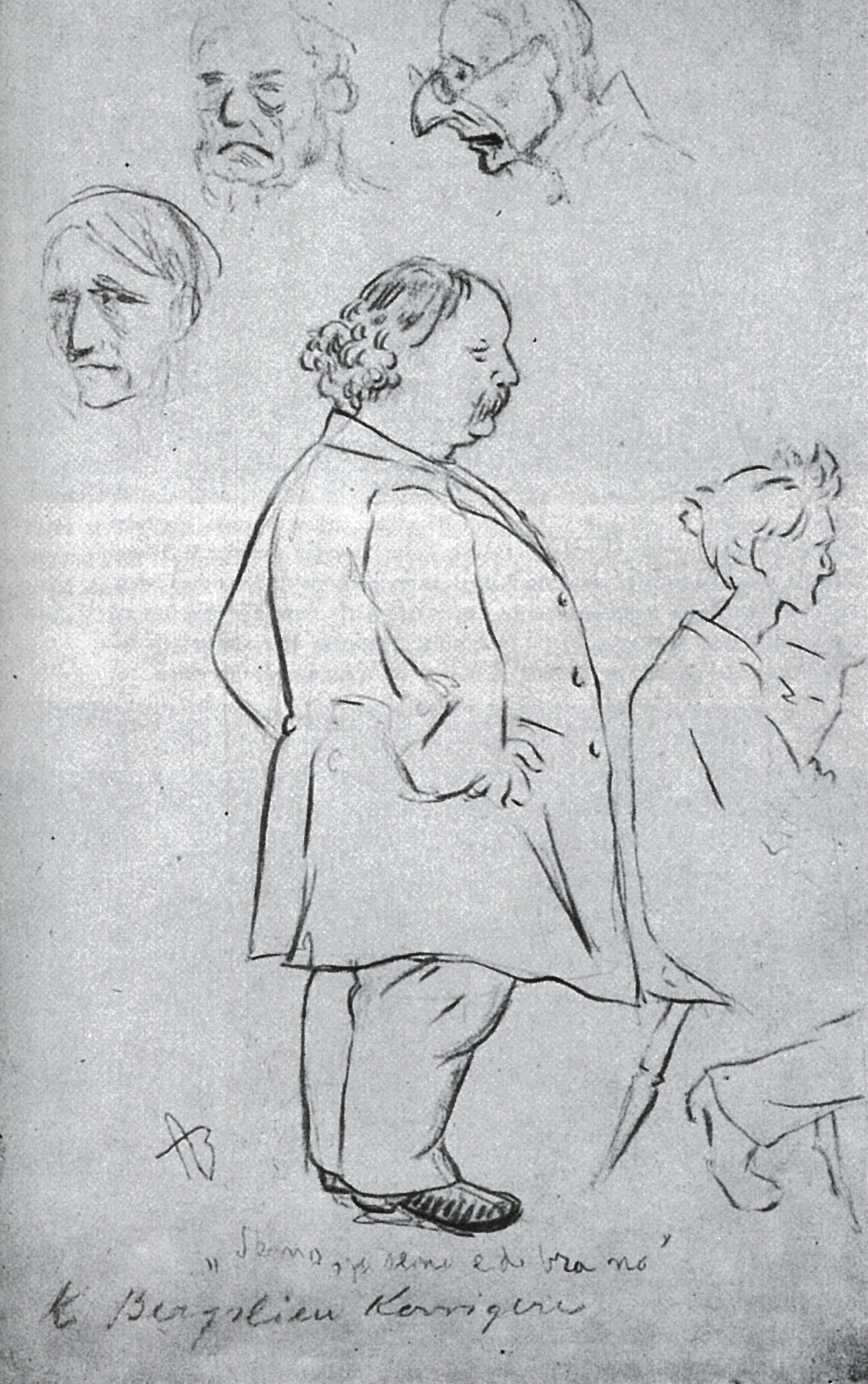 Norwegian artist and art teacher Knud Bergslien teaching at his art school; sitting his student Gustav Wentzel (1859-1927). Wentzel was a student with Bergslien between 1878 and 1880